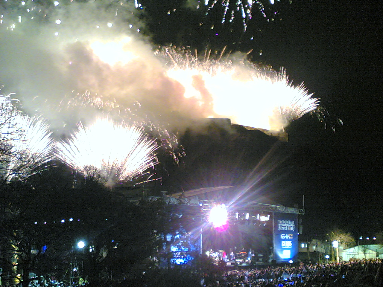 Hogmanay Party in Princes Street Gardens, Edinburgh